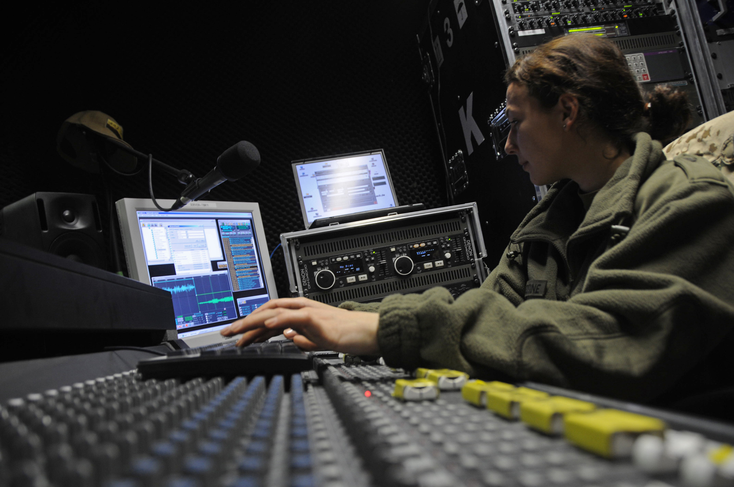 German Cpl. Miriam Noureddine, German Radio Andernach technician and native of Koblenz, Germany works during a broadcast here in Mazar-e-Sharif, Jan. 14. The Germans are helping ISAF in assisting the Afghan government in extending and exercising its authority and influence across the country, creating the conditions for stabilization and reconstruction.